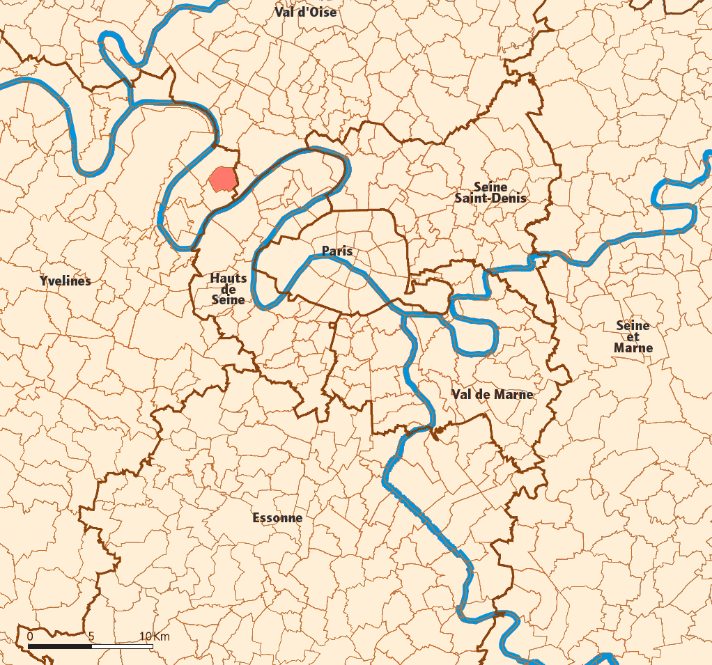 Created map myself.